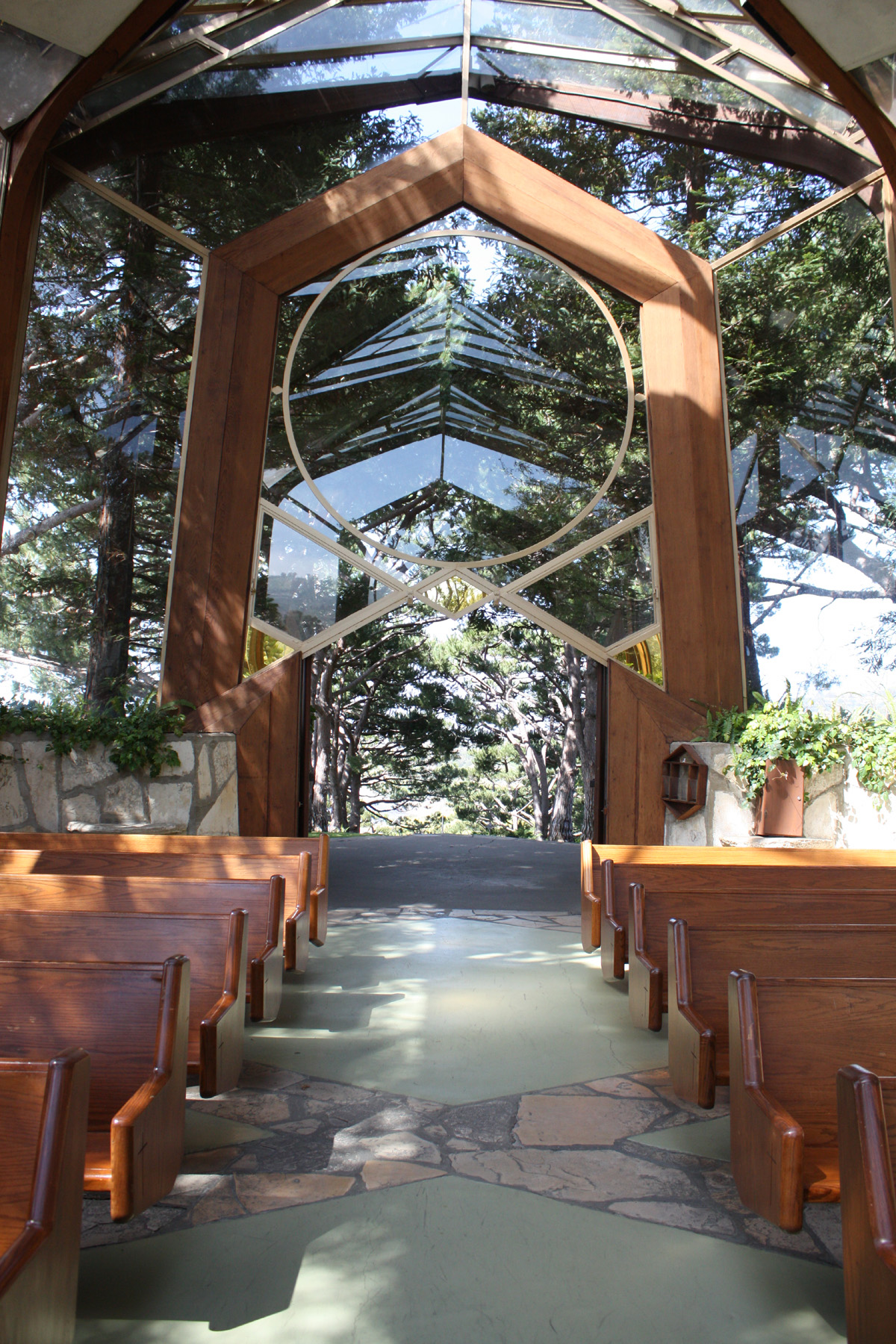 Wayfarers Chapel in Rancho Palos Verdes, California